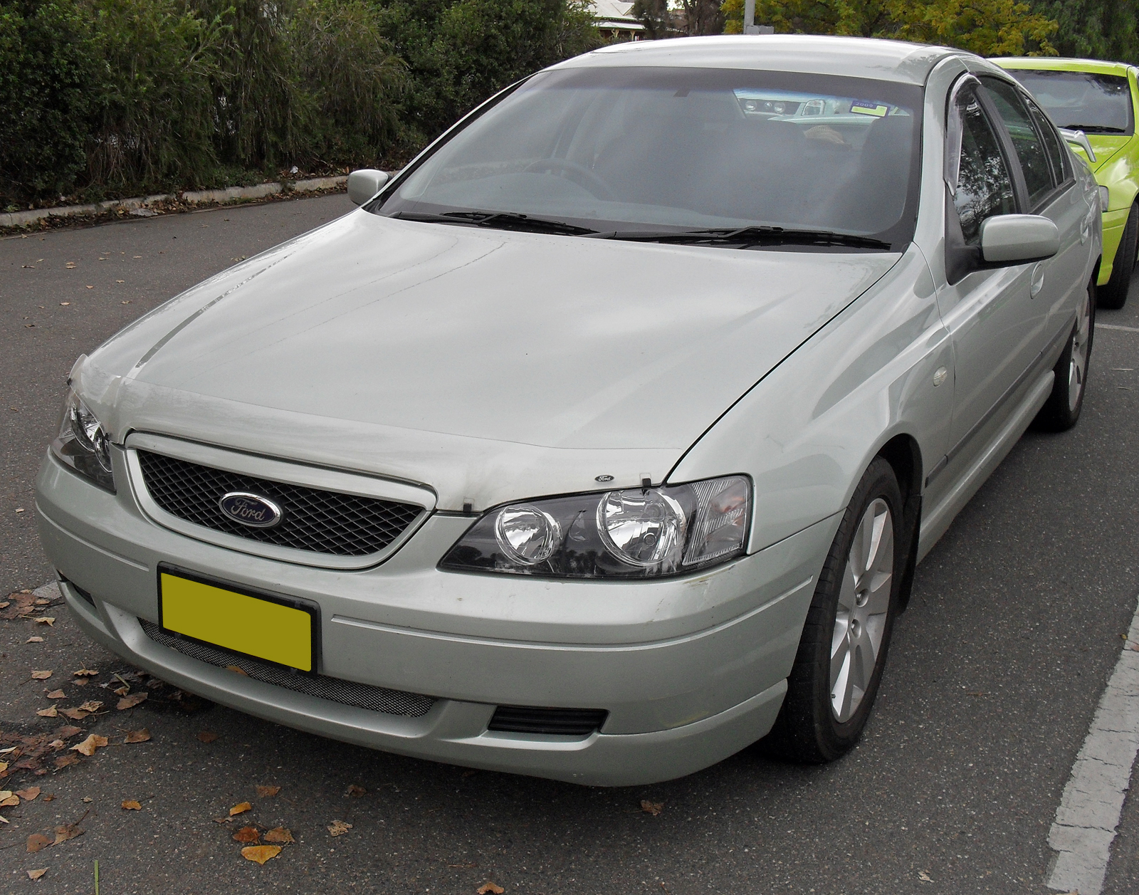 2002–2004 Ford BA Falcon XT "Limited Edition", photographed in New South Wales, Australia.